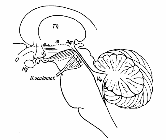 Von Economo’s marking of the boundary (dotted line a) of the field in the diencephalic–mesencephalic transition, in which the centre for the brain regulation of sleep is lying. Abbreviations are: Aq, aqueduct; Hy, hypophysis; J, infundibulum; O, optic chiasm; Th, optical thalamus; V3, third ventricle; V4, fourth ventricle.